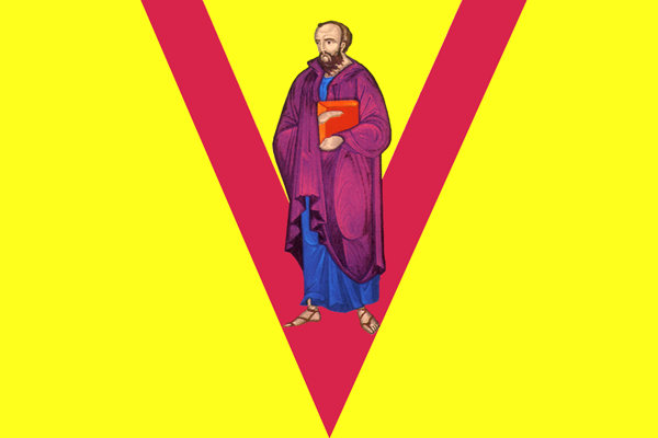 Flag of Pavlovsky rayon, Krasnodar Krai, Russia